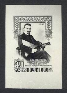 Stamp of USSR